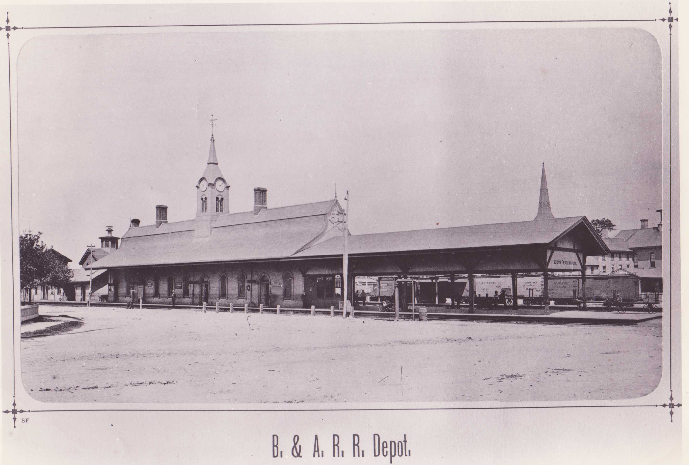 A very early photograph of the 1848 depot at South Framingham, dating to about 1861